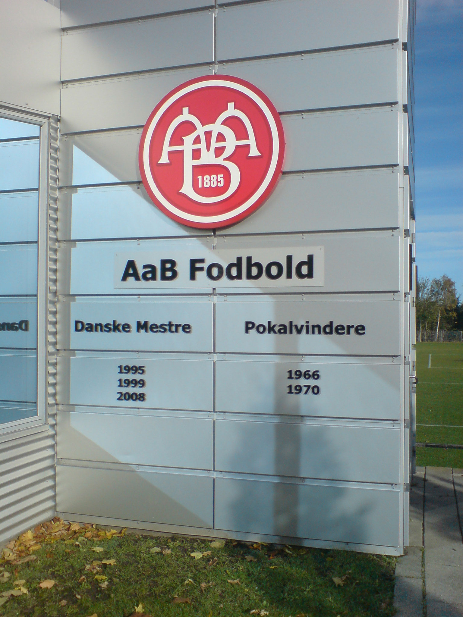 The main building of the AaB Fodbold administration.